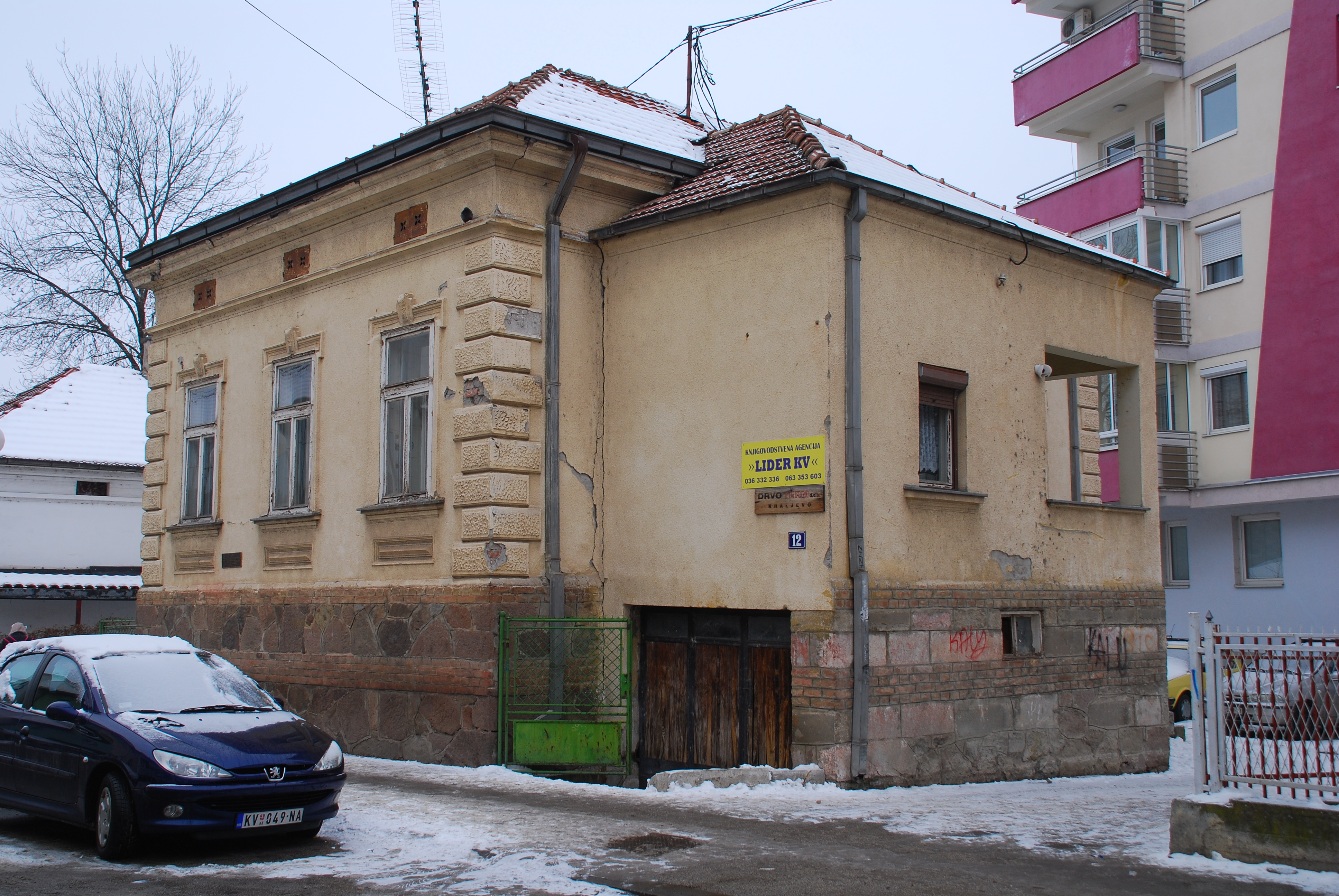 House of family Božić in Kraljevo